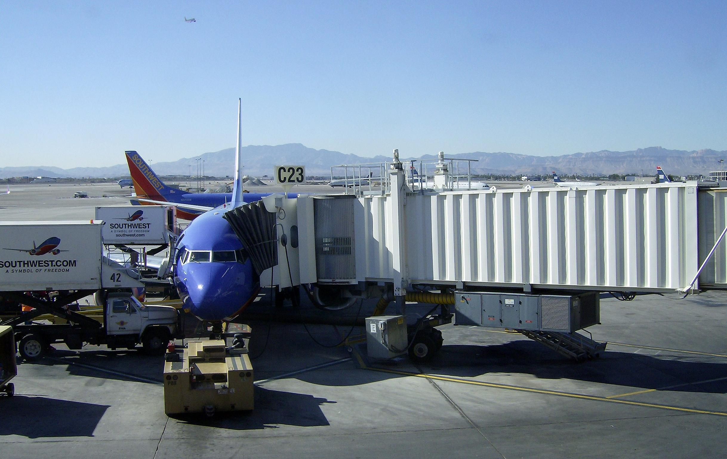 Southwest airlines gates at McCarran LV, NV